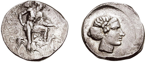 Sicily, Segesta. Circa 405-400 BC. AR Tetradrachm (17.39 g, 6h). ΕΓΕΣΤΑΙΩΝ (egestaiōn), the hero Egestes standing right, cap slung over shoulder and chlamys over left arm, resting left foot on rock; at his feet, two hounds standing right, one sniffing the ground; [small ithyphallic herm before] Head of the nymph Segesta right, hair bound in ampyx and elaborately embroidered sakkos. Lederer 7 (same dies); Mildenberg, Kimon, pl. 11, 22 (this coin); SNG ANS 646 (same dies); SNG Copenhagen -; BMC Sicily pg. 133, 30-31 (same dies); Rizzo pl. 62, 15 (same dies); Jameson 709 (same dies); Pozzi 531 (same dies); Kraay & Hirmer pl. 71, 203 (same obverse die). Good VF, slight roughness. Very rare. Ex Leu 2 (25 April 1972), lot 99. This fine obverse is combined with three other reverses, all imitating Syracuse with great skill, including the facing head after Kimon. Interestingly, the reverse die used for these Lederer type 7 tetradrachms was a didrachm die (see SNG ANS 644-645), providing a crucial chronological link within the denominations. Mildenberg suggests that this exceptional coinage was intended as a demonstration of political independence on the part of a city halfway between the Greek and Carthaginian world, around the time of Dionysos I's peace treaty with Carthage (404 BC).